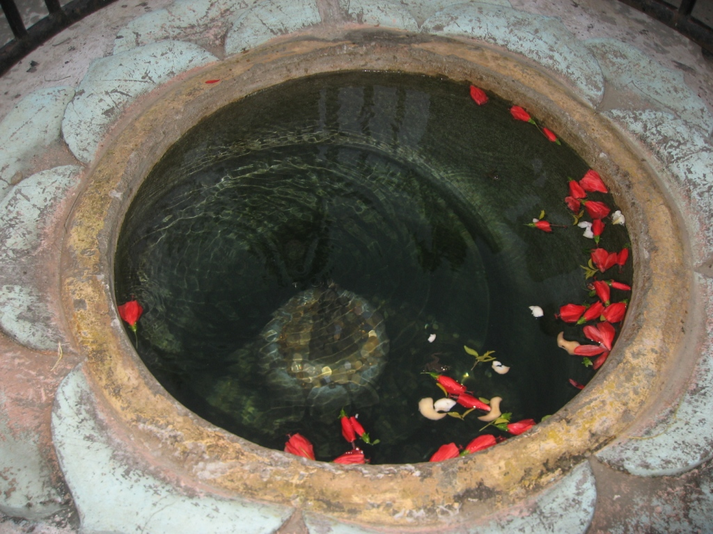 Davis Falls (Patale Chhango)